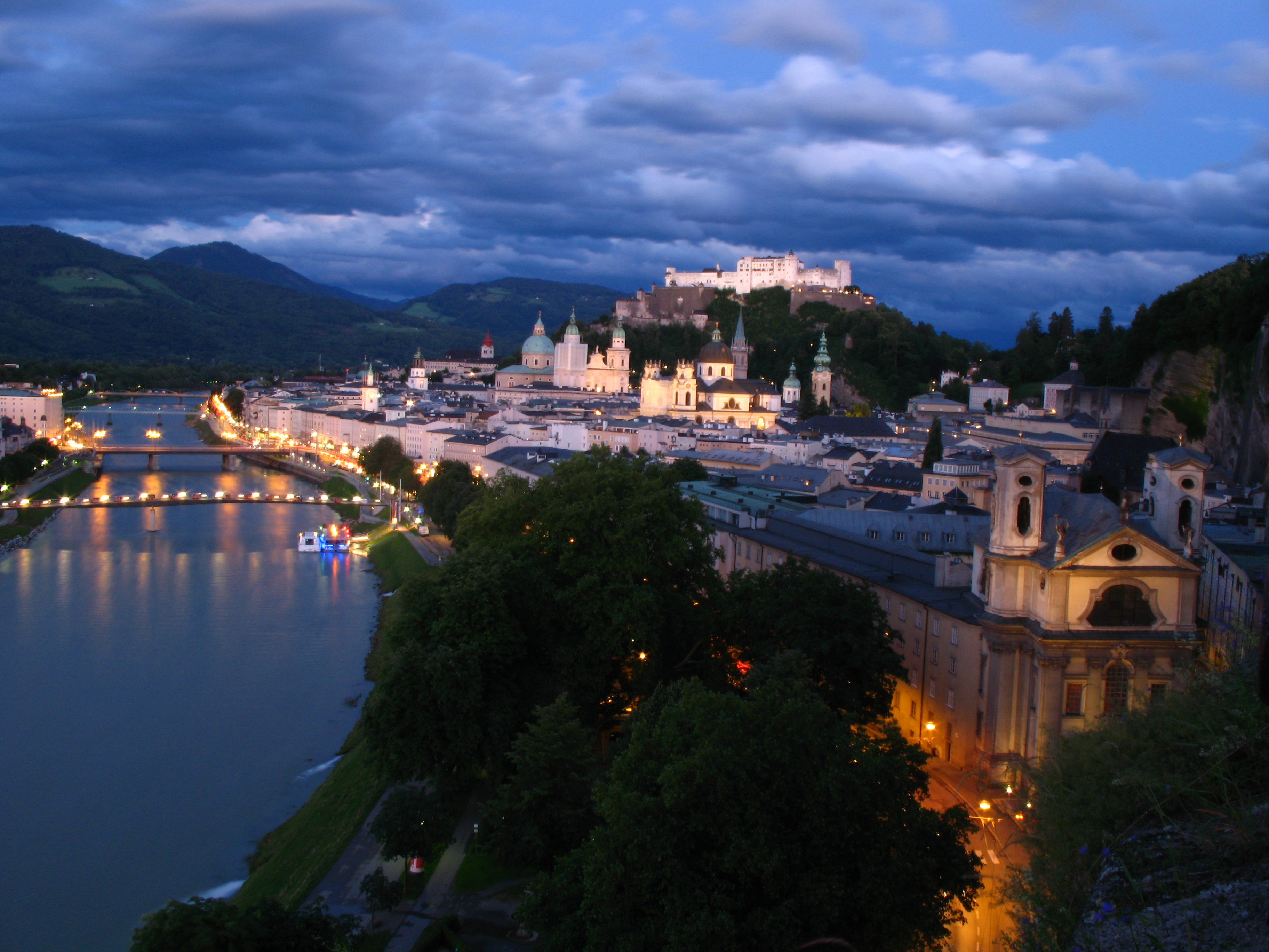 View from Monk Hill, Salzburg, Austria